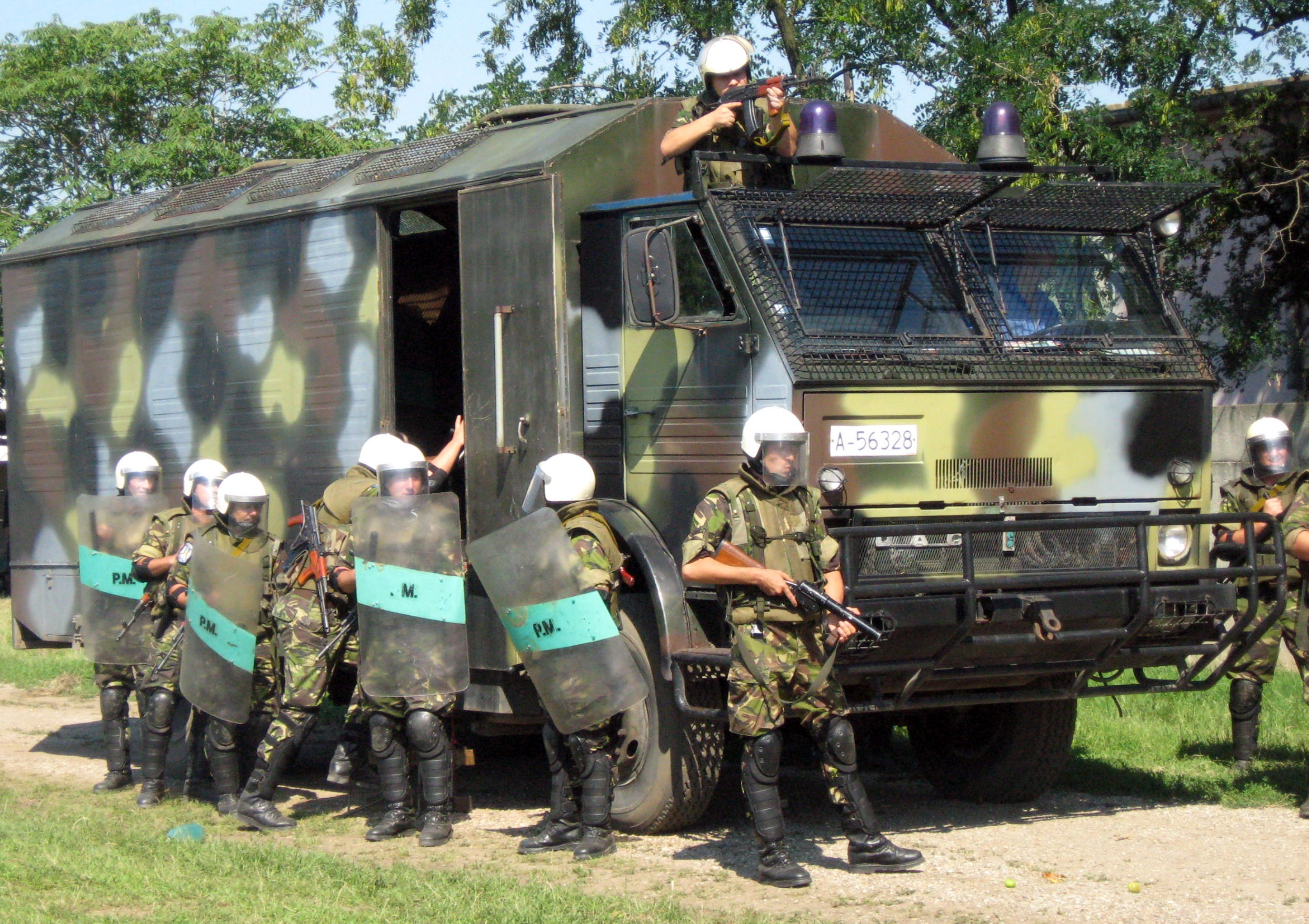 Soldiers from Romania's 265th Military Police Battalion train practice training operations with Alabama Army National Guard military police Soldiers during a training exercise in Romania. Alabama and Romania are partners in the State Partnership Program.